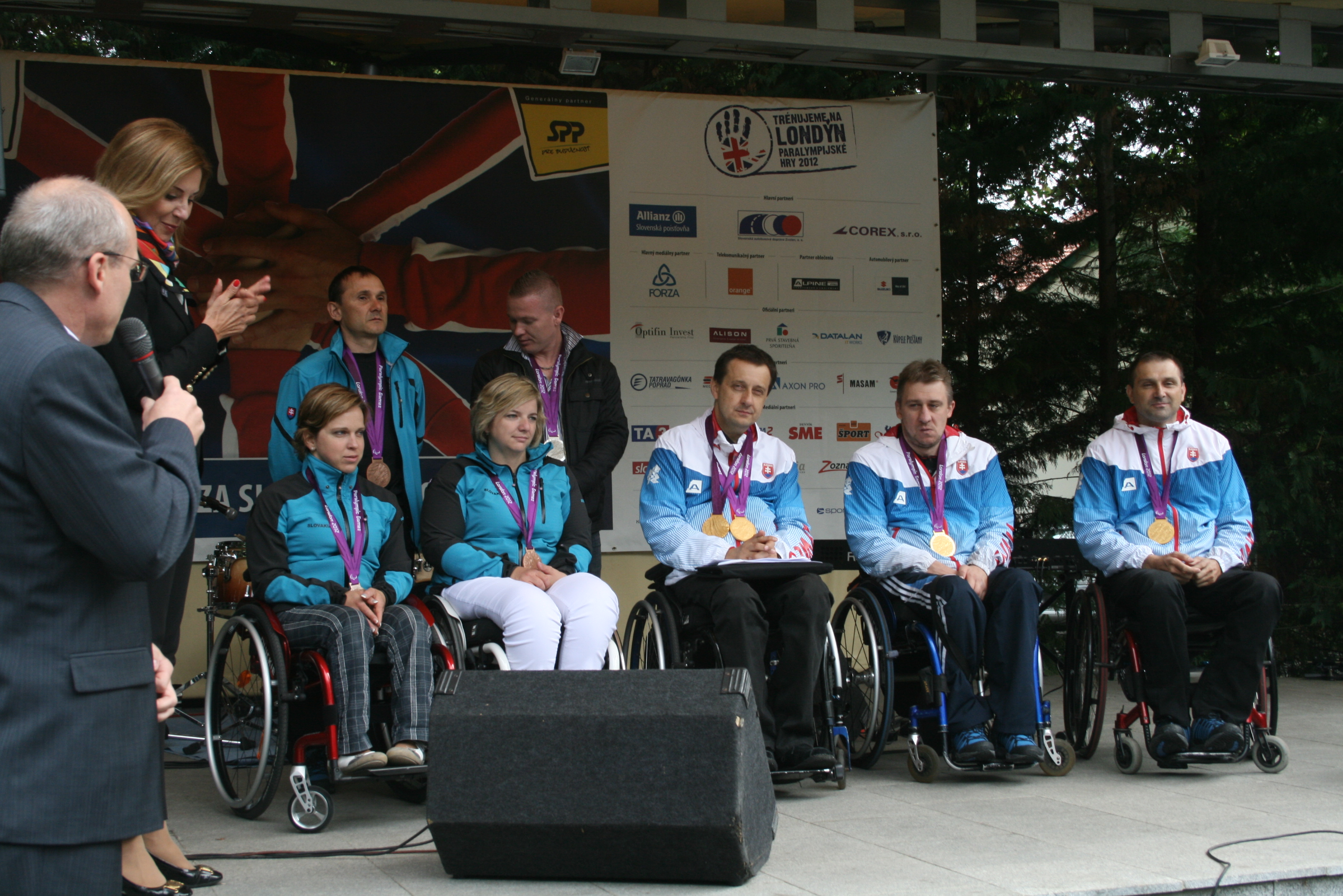 Slovak paralympic medailists from Summer Paralympics 2012 in London on opening ceremony of paralympic Walk of Fame in Piešťany, September 14, 2012. Upper row from left: V. Janovjak, R. Csejtey, lower row from left: V. Vadovičová, A. Kánová, J. Riapoš, R. Revúcky a M. Ludrovský.